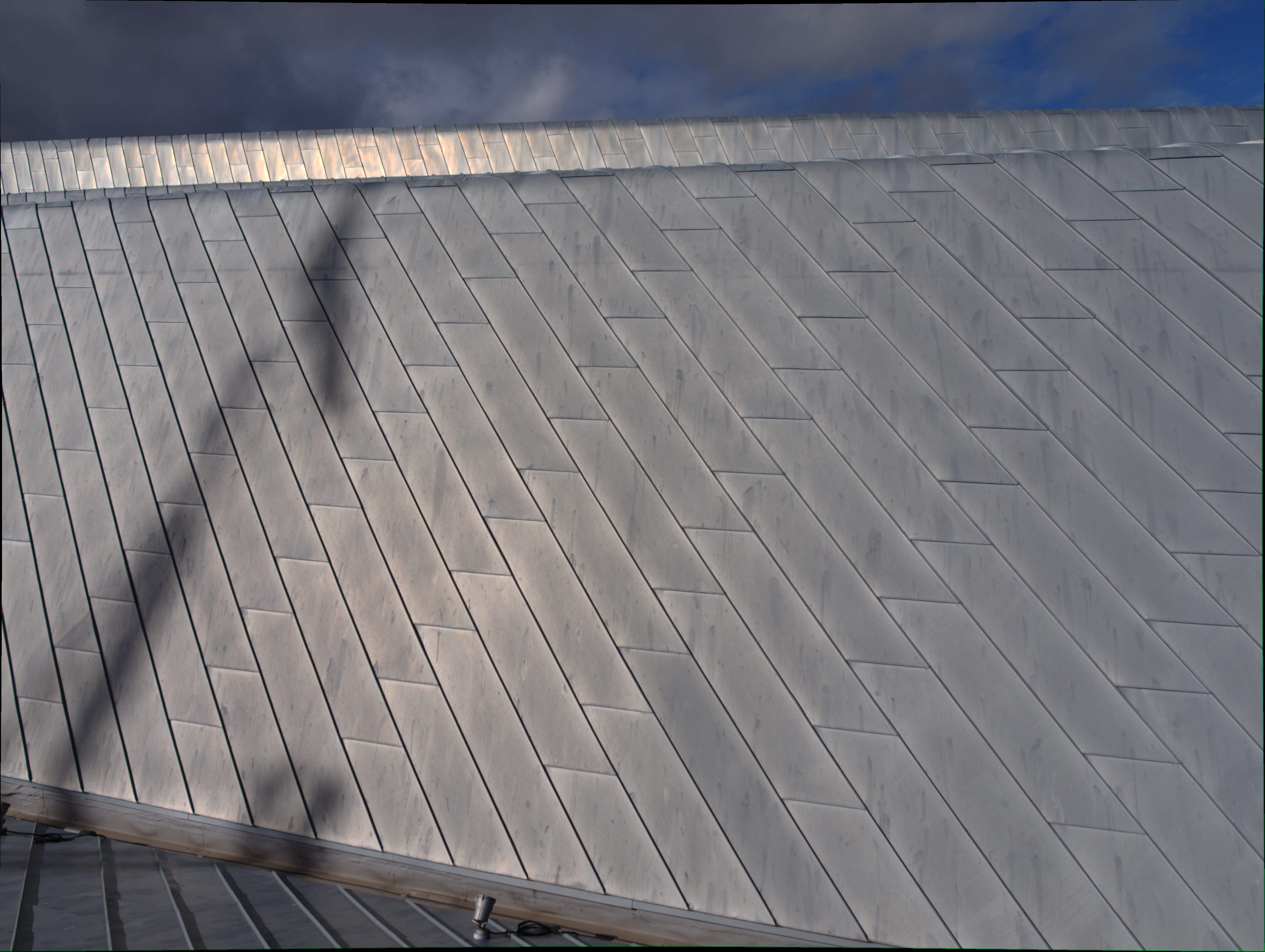 Metal roof in wave pattern with shadow of Tall Ship mast. This file was uploaded by an individual participating in the Glasgow Museums GLAMWiki partnership. You can find out more about Glasgow Museums' GLAMwiki work on the project page This tag does not indicate the copyright status of the attached work. A normal copyright tag is still required. See Commons:Licensing for more information.